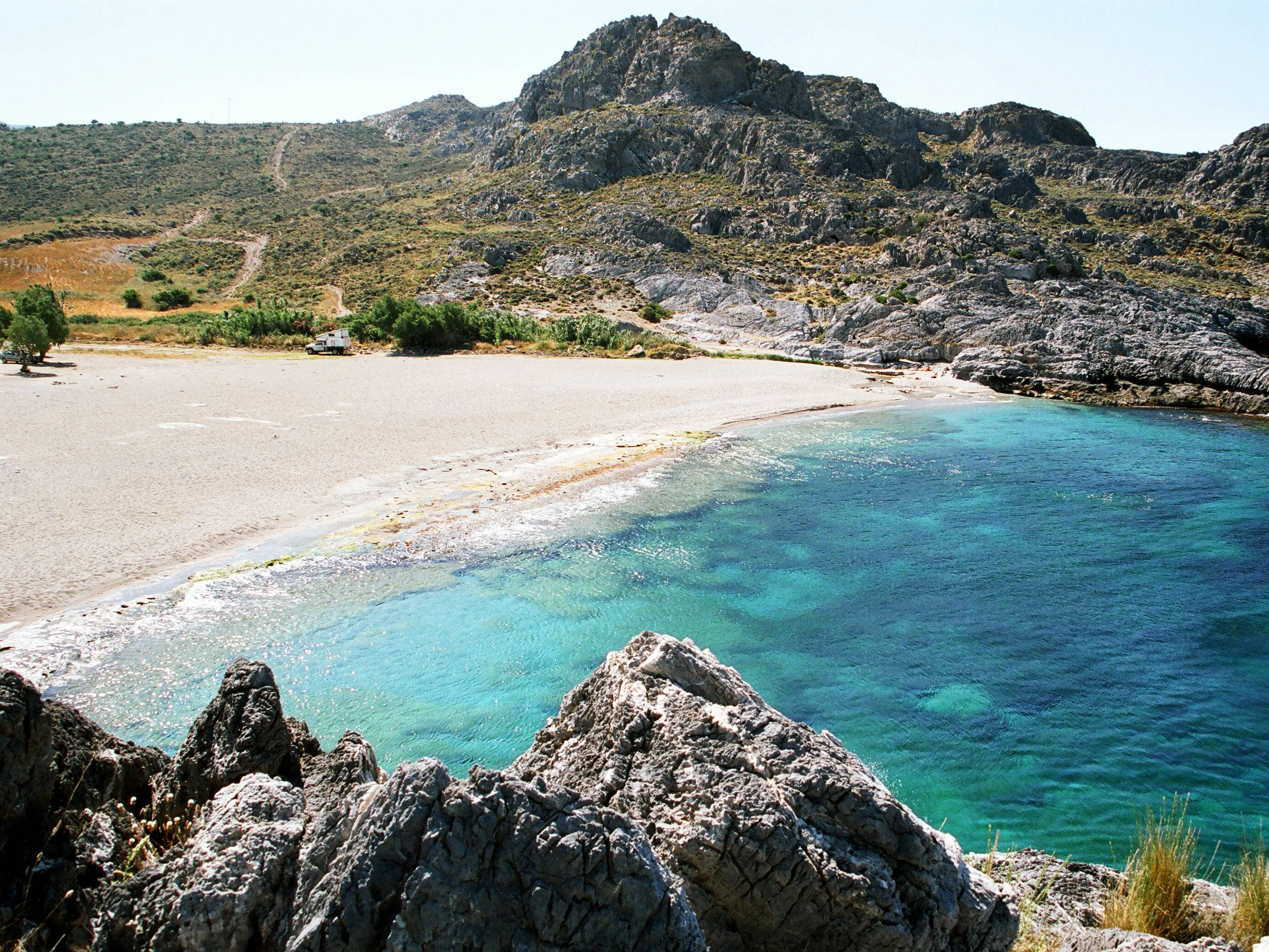 Ammoudi, Crete, Greece